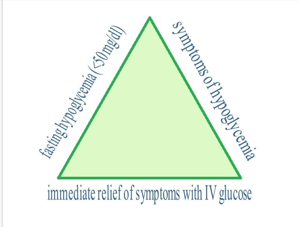 Whipple's triad to diagnose hypoglycemia